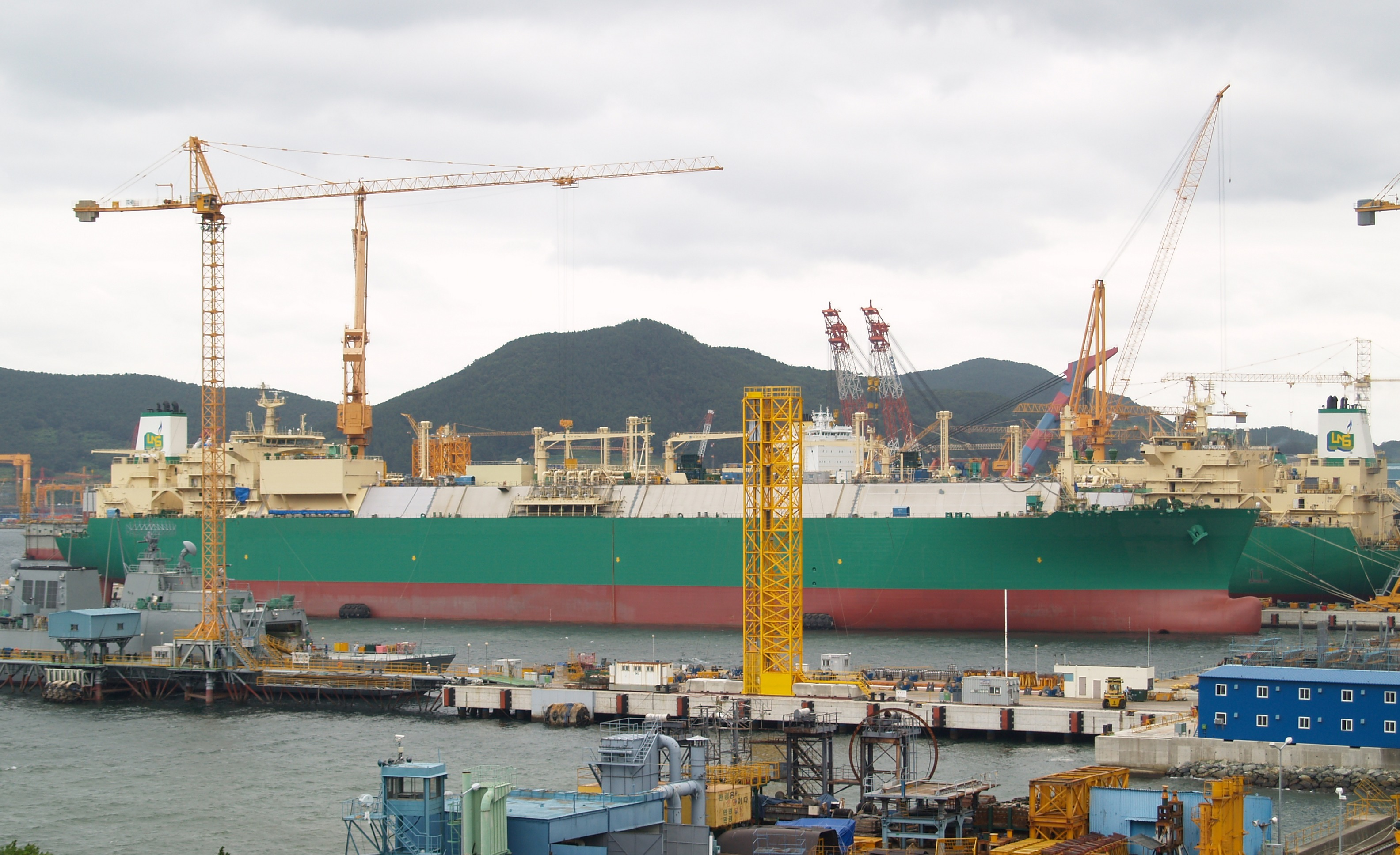 LNG Carriers under construction at DSME shipyard. In front is LNG Kano, and in back is LNG Lokoja.